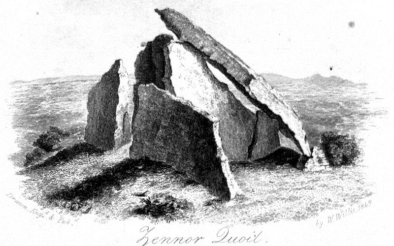 Zennor Quoit - Penwith - Cornwall - UK